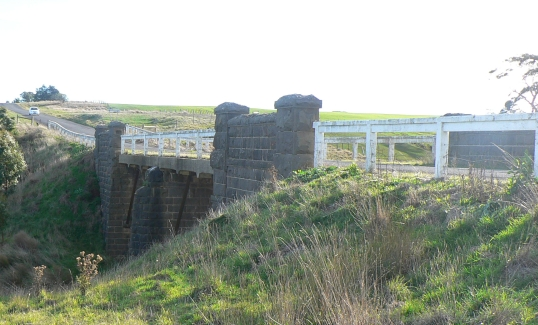 Bluestone bridge over the Moorabool River on Yendon-Edgerton road.